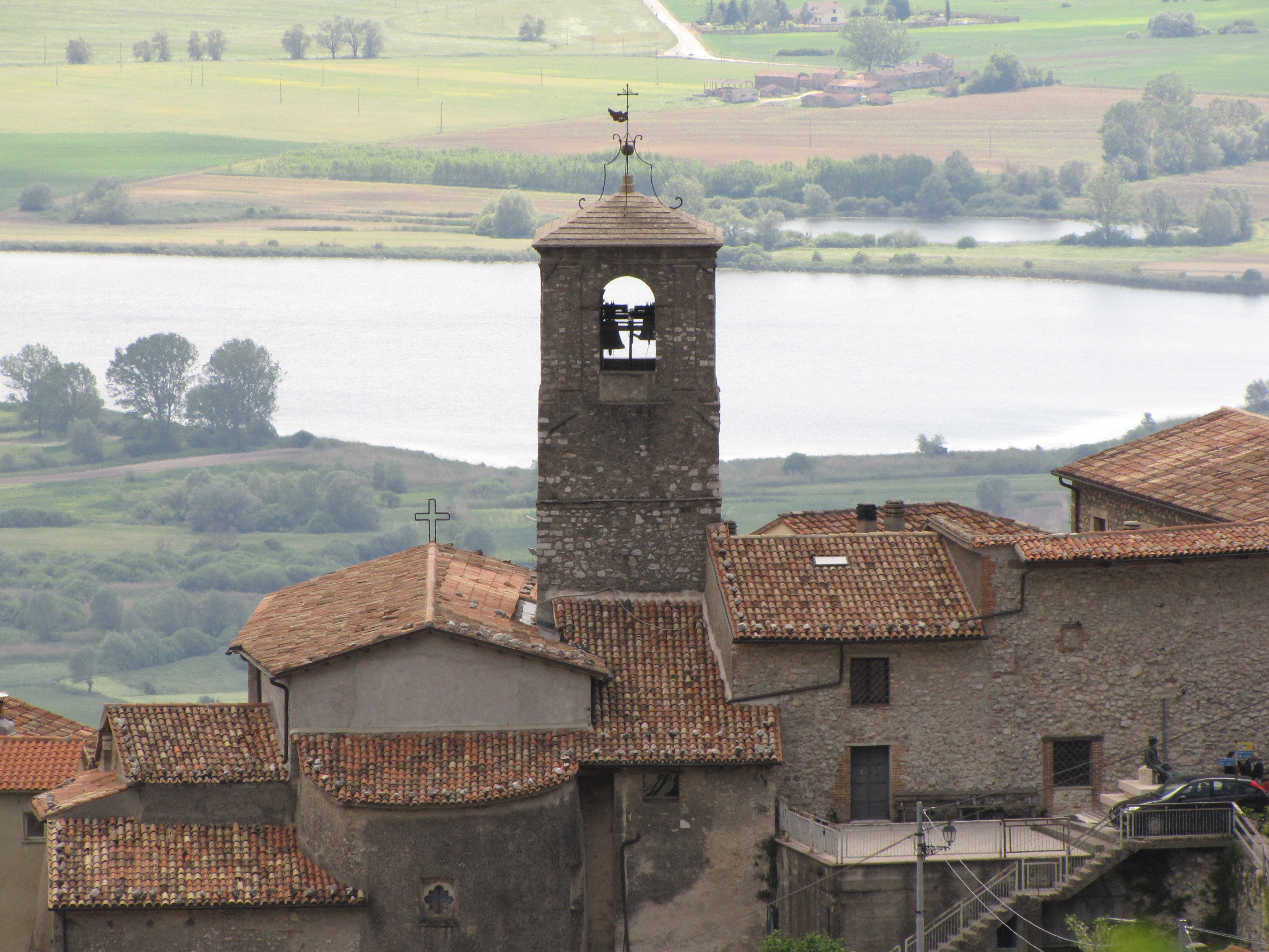 Poggio Bustone (Province of Rieti, Lazio, Italy)